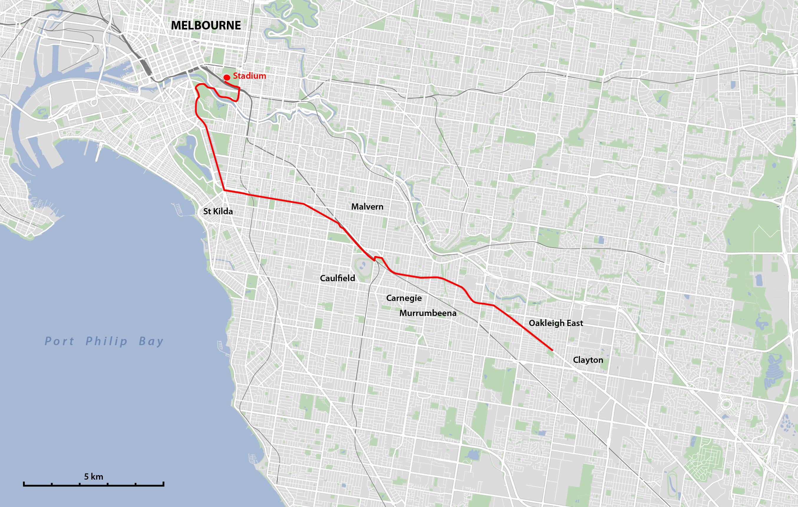 Map of the marathon course at the 1956 Summer Olympics in Melbourne